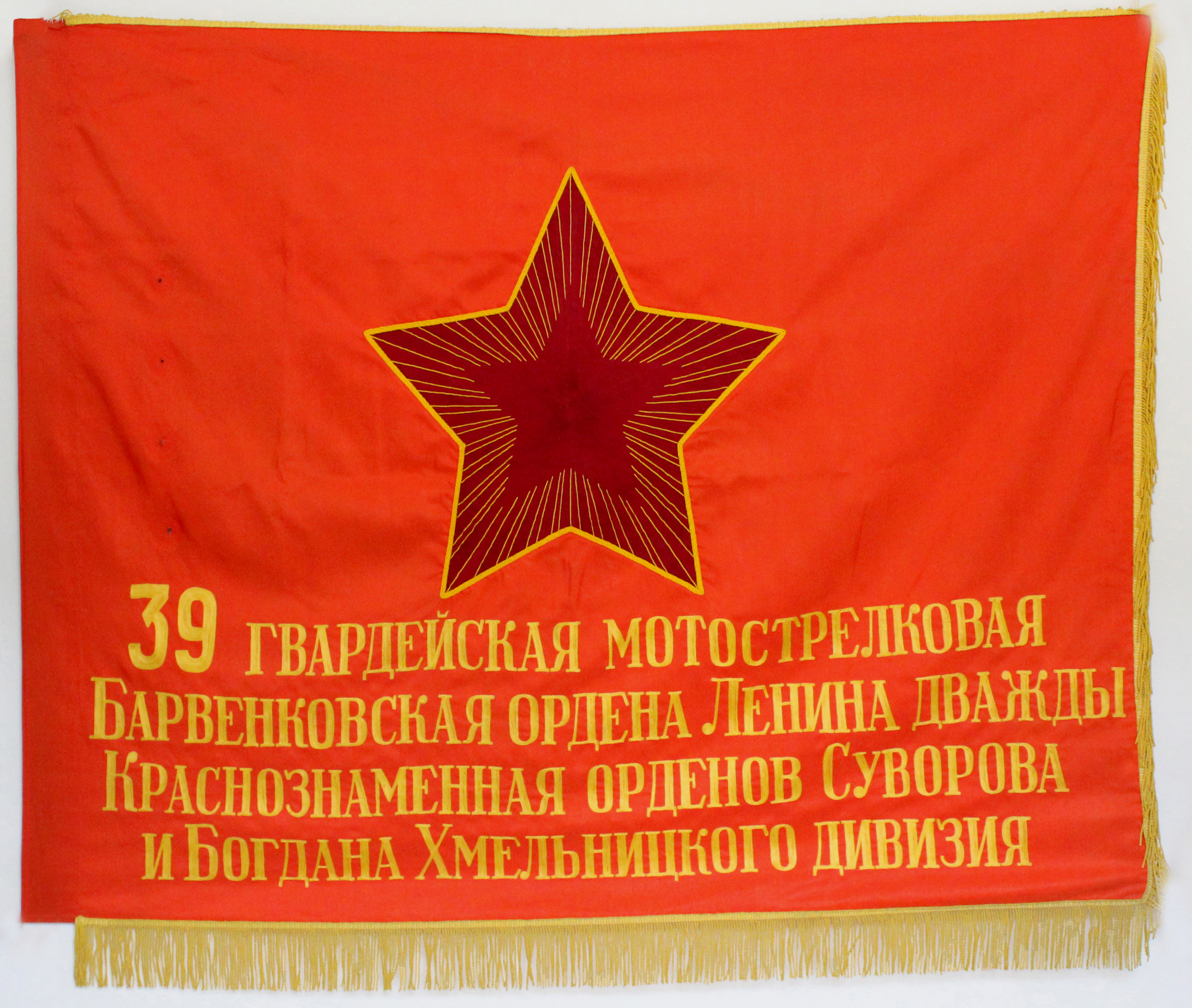 Military flags of the 39th Guards Motor Rifle Division